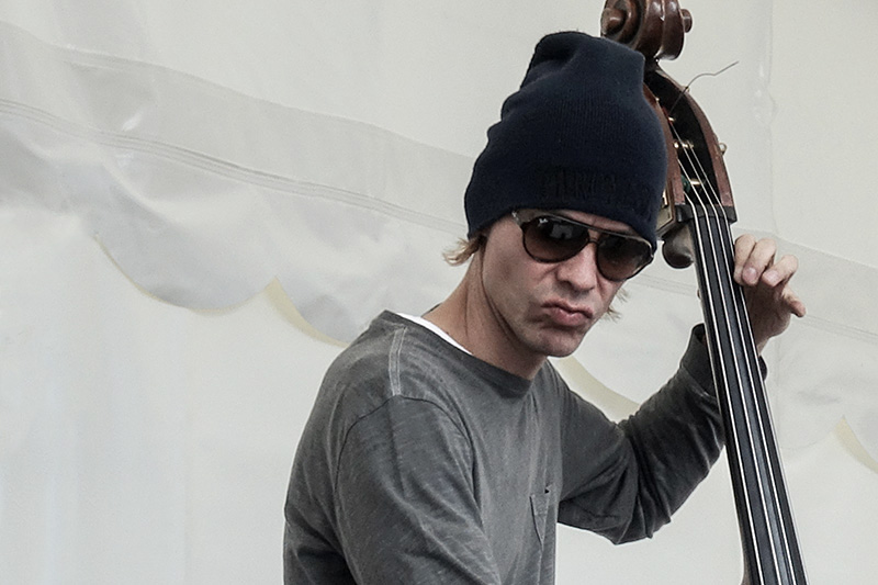 Jasper Høiby at Aarhus Jazz Festival 2017